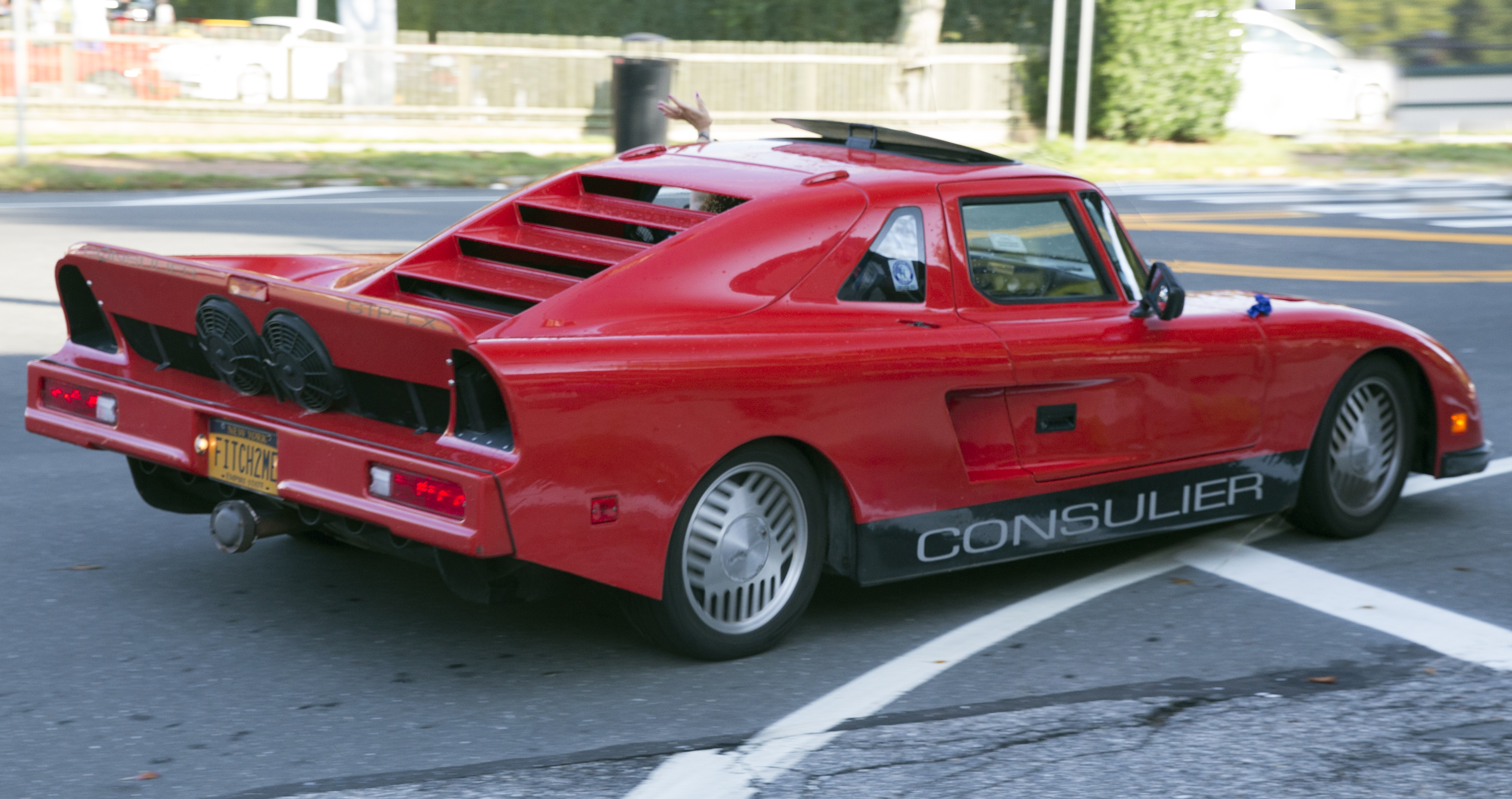 A 1990 (prototype) Consulier GTP-LX making a daring U-turn to enter the 2019 Bridgehampton Cars & Coffee. Awesome owner, that's her waving apologetically to other drivers. A Consulier can accommodate a rather sizable hat as well. Ten prototypes were built, of which one more remains. This one used to be John Fitch's personal car, hence the license plate.